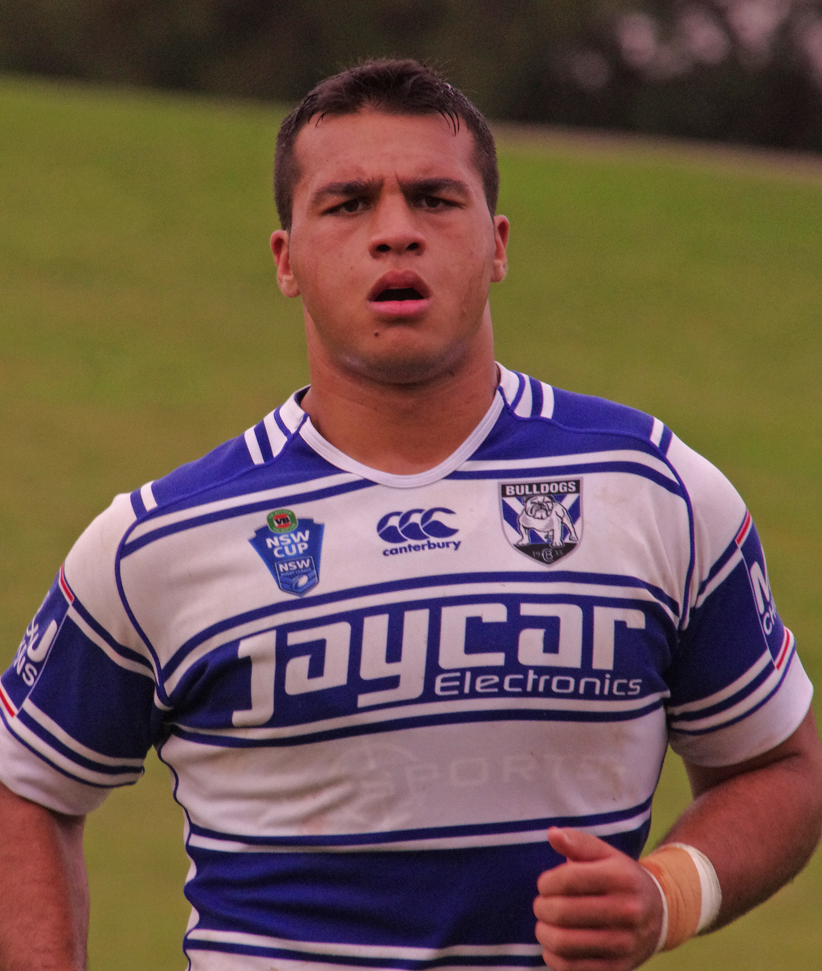 Lloyd Perrett